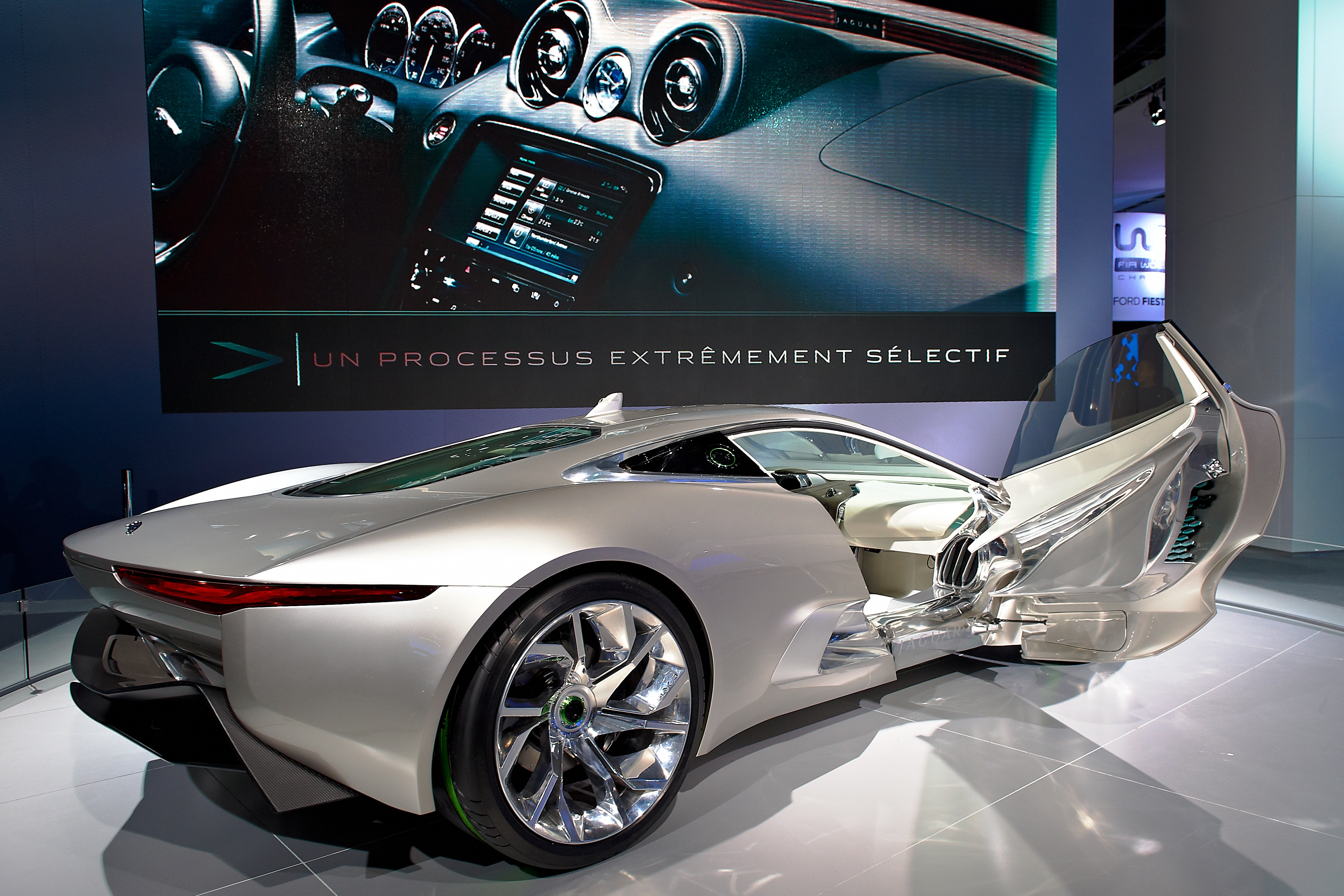 A Jaguar C-X75 concept car at the 2010 Paris Motor Show.